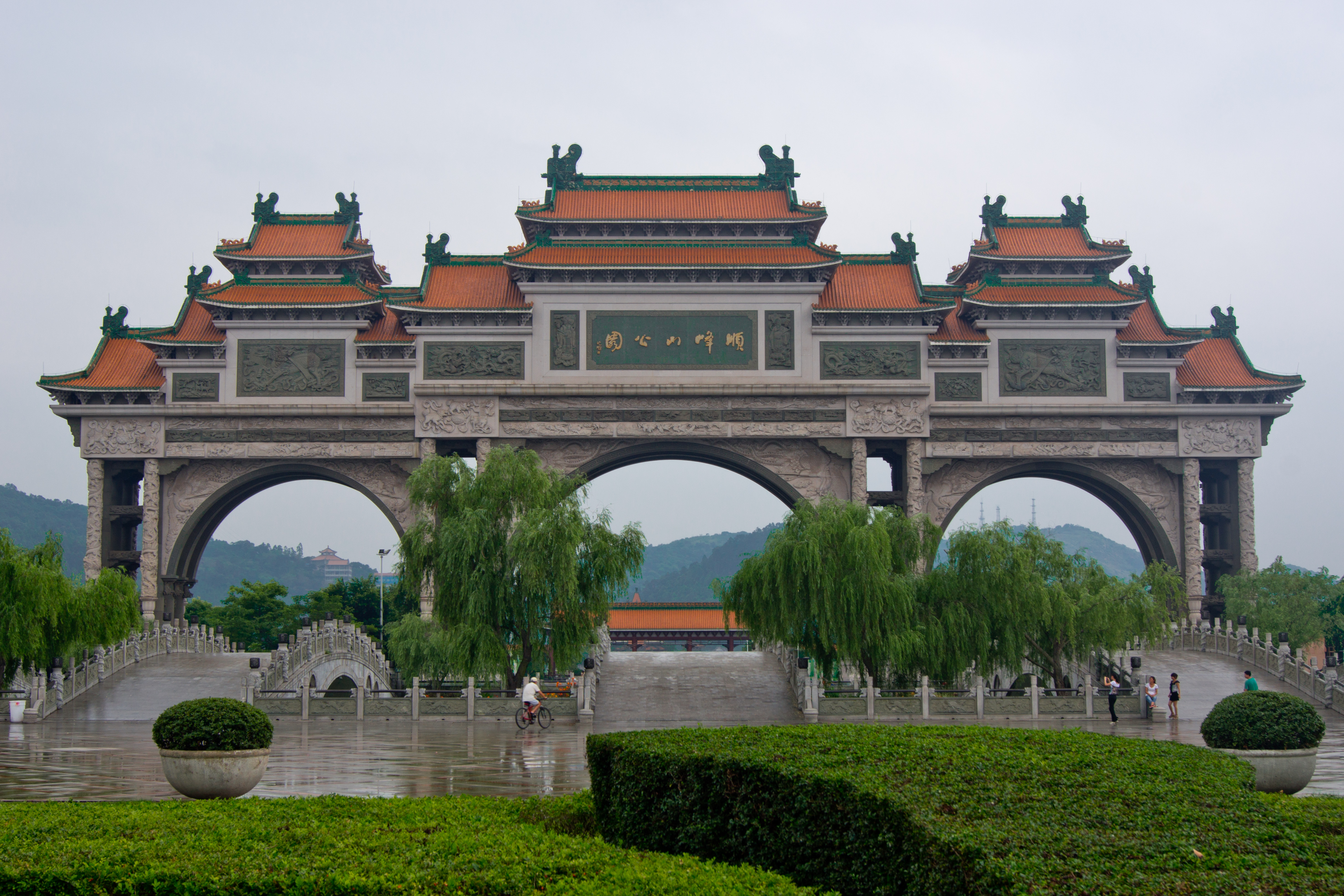 Paifang in Shunfengshan Park (aka Shunfeng Park), Shunde